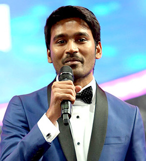 Dhanush at the 62nd Britannia Filmfare South Awards, 2014